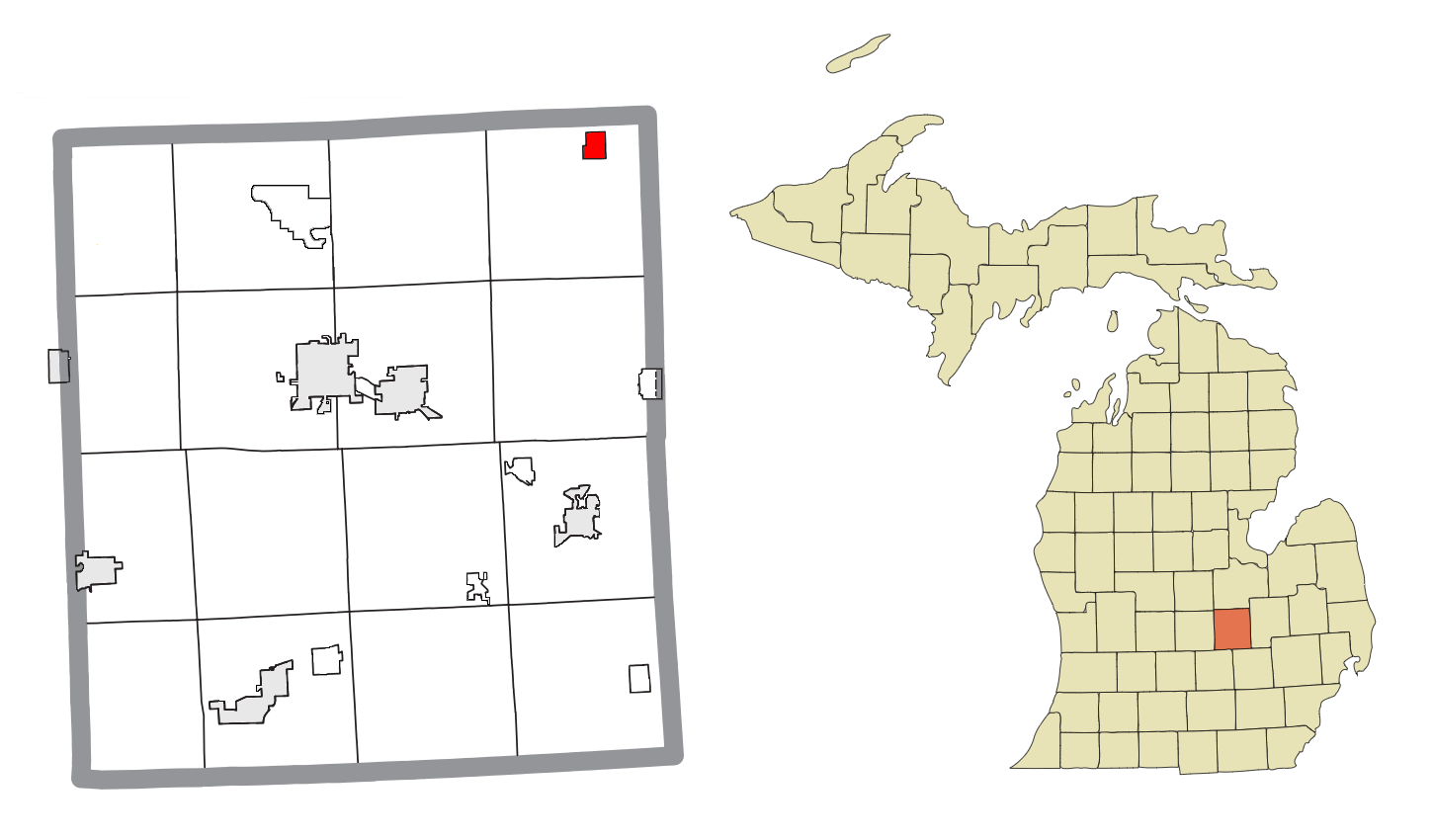 New Lothrop, MI